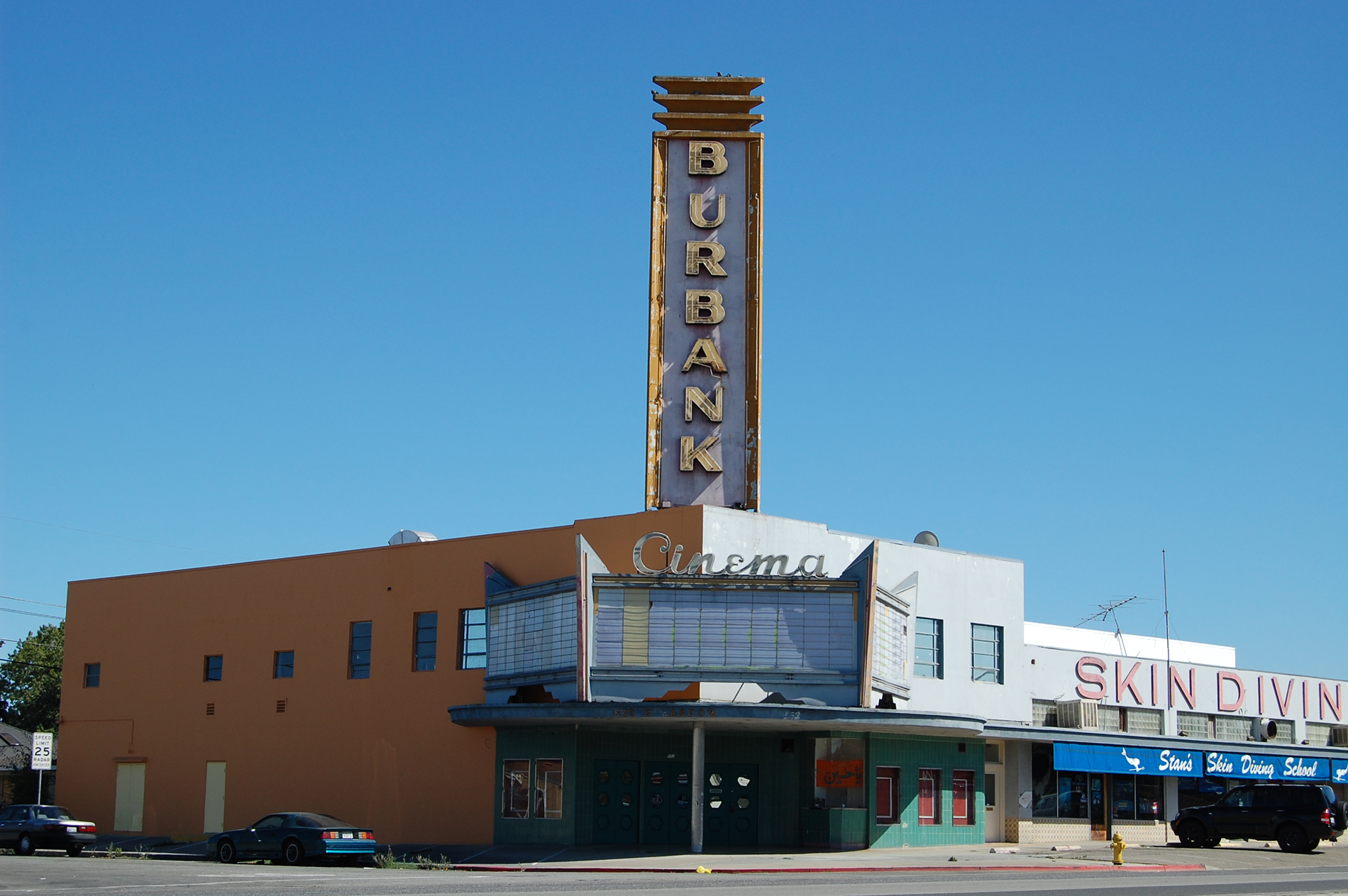 Replaces Burbank_theater_san_jose.jpg. Images may have been altered using filters or camera settings. Software may have been used to adjust image attributes such as image file format, image size, composition, contrast, or colors. Image editing software was used to eliminate spray paint vandalism present on this image's subject.